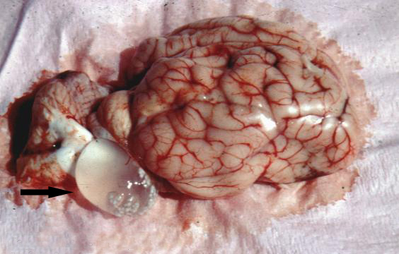 Infection of brain of sheep with larval cyst of Taenia multiceps cestode tapeworm.